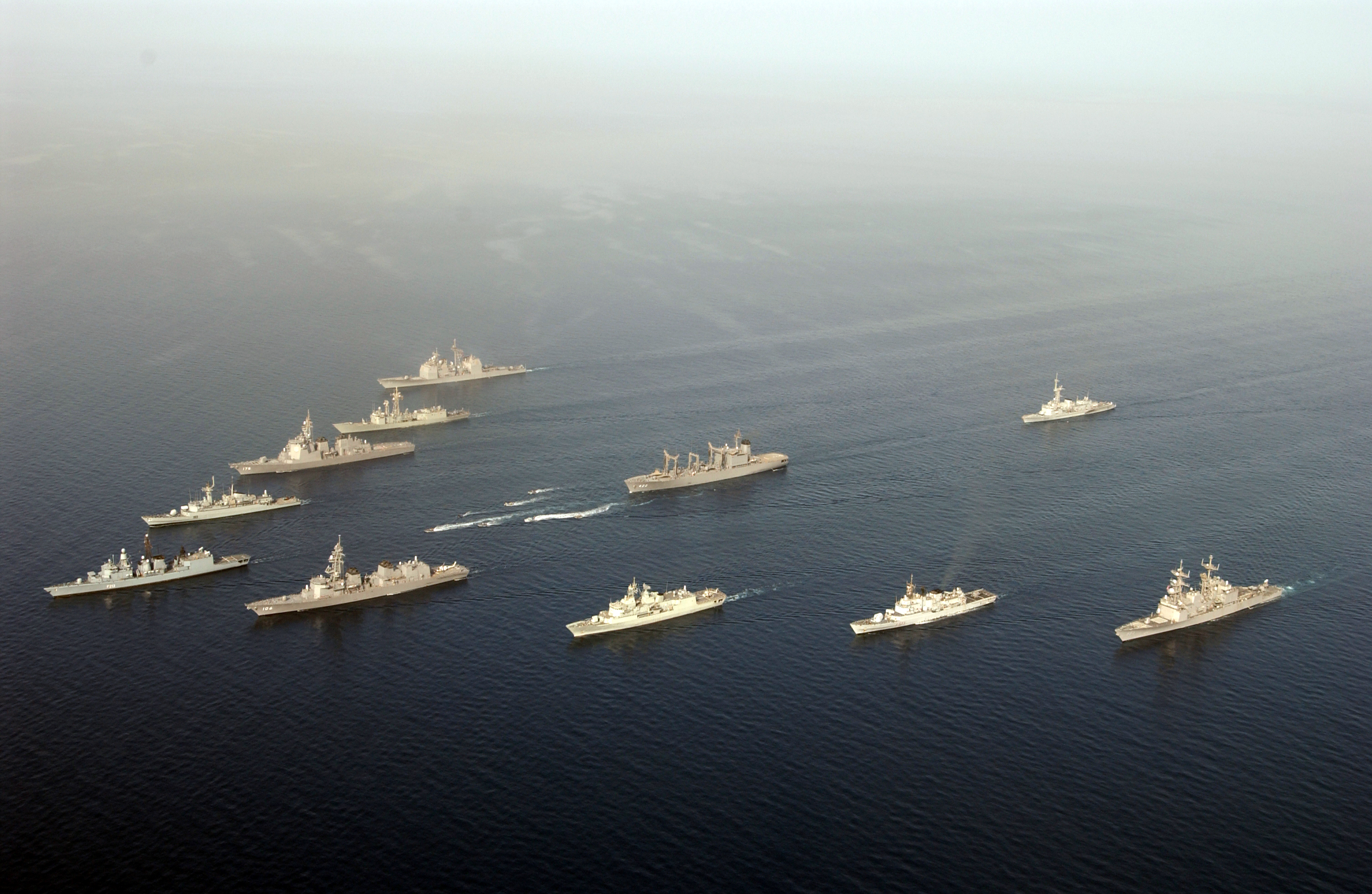 Gulf of Oman (May 06, 2004) - Ships and Rigid Hull Inflatable Boats (RHIB) assigned to Combined Task Force One Five Zero (CTF-150) assemble in a formation for a photo exercise. The multinational Combined Task Force One Five Zero (CTF-150) was established to monitor, inspect, board, and stop suspect shipping to pursue the war on terrorism and includes operations currently taking place in the North Arabia Sea to support Operation Iraqi Freedom. Countries contributing to CTF-150 currently include Australia, Canada, France, Germany, Italy, Pakistan, New Zealand, Spain, United Kingdom and the United States. U.S. Navy photo by Photographer's Mate 1st Class Bart Bauer. (RELEASED)